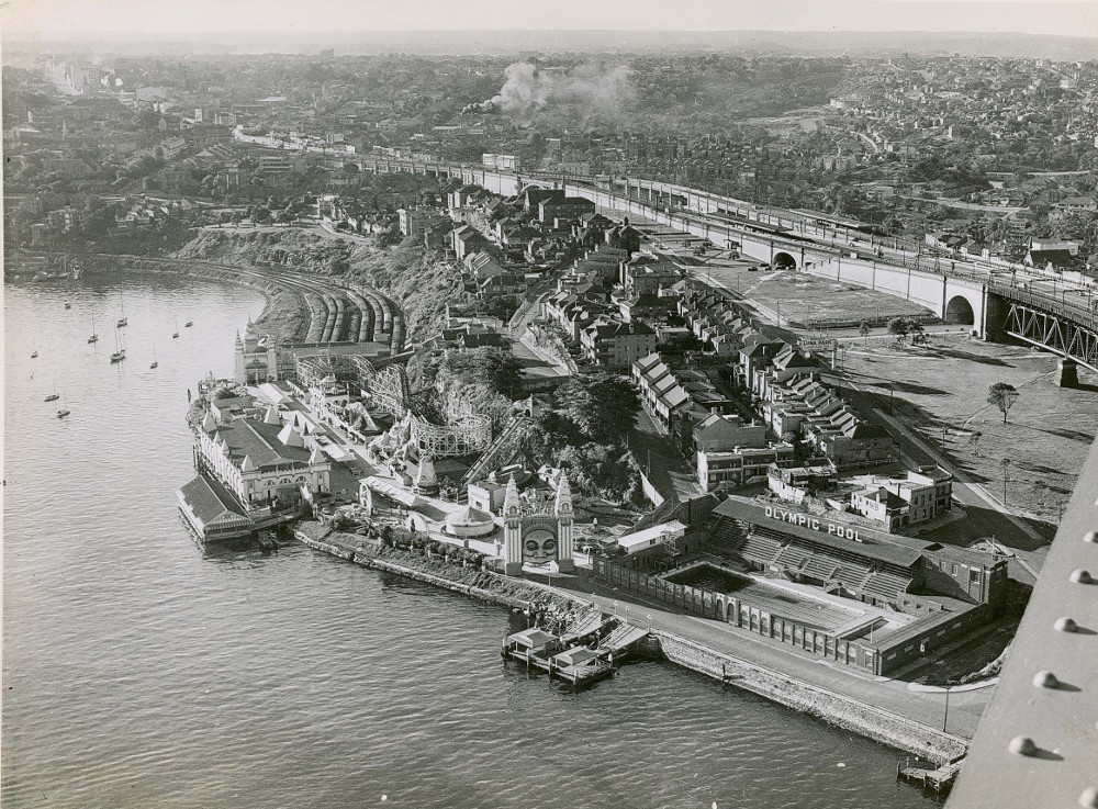 View of Milsons Point and Luna Park (NSW) Dated: No date Digital ID: 12932-a012-a012X2442000053 Rights: This image is part of our "Moments in Time" blog series where we ask you to help us date the photos or identify the location where the photo was taken. If you can help with this image please head over to the post at our Archives Outside blog. We have included the larger version here on Flickr to help show more detail. We'd love to hear from you if you use our photos/documents. Many other photos in our collection are available to view and browse on our website using Photo Investigator.